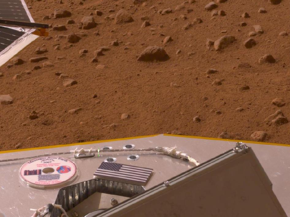 This image, released on America's Memorial Day, May 26, 2008, shows the American flag and a mini-DVD on the Phoenix's deck, which is about 3 feet above the Martian surface. The mini-DVD from the Planetary Society contains a message to future Martian explorers, science fiction stories and art inspired by the Red Planet, and the names of more than a quarter million Earthlings. Mars, a cold desert planet with no liquid water on its surface, has water ice that lurks just below ground level in its arctic region. Discoveries made by the Mars Odyssey Orbiter in 2002 show large amounts of subsurface water ice in the northern arctic plain. Phoenix will use its robotic arm to dig through the protective top soil layer to the water ice below and ultimately, to bring both soil and water ice to the lander platform for sophisticated scientific analysis.